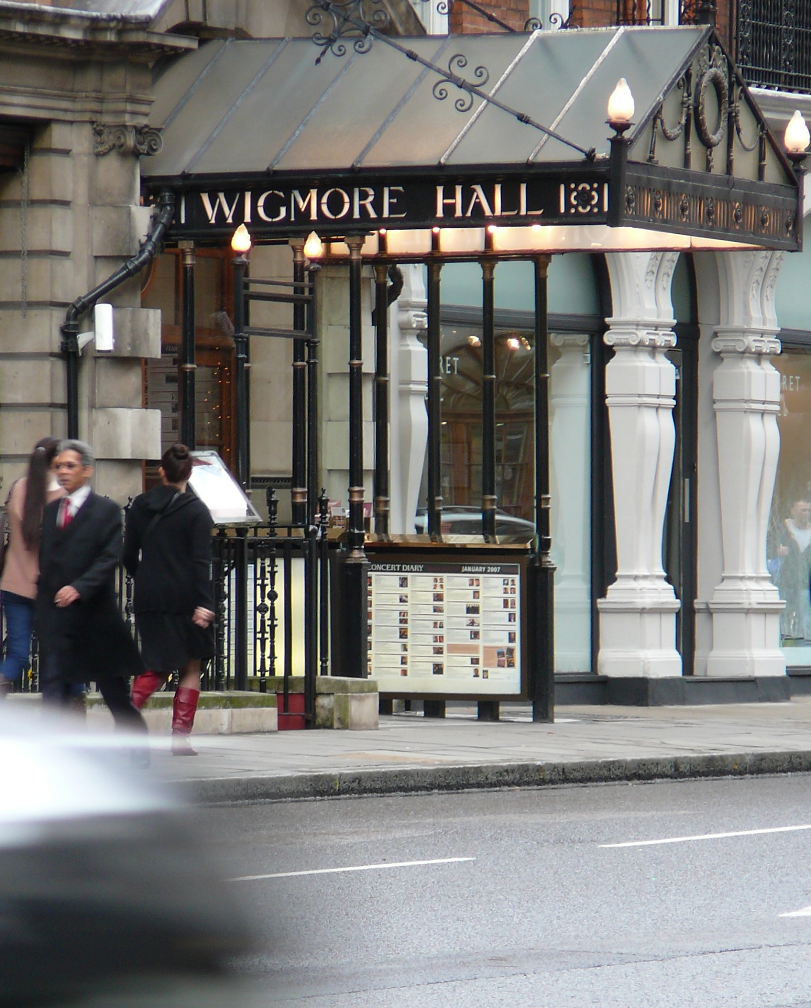 A view of the entrance to the Wigmore Hall. The image was taken with a Panasonic Lumix DMC-TZ1.